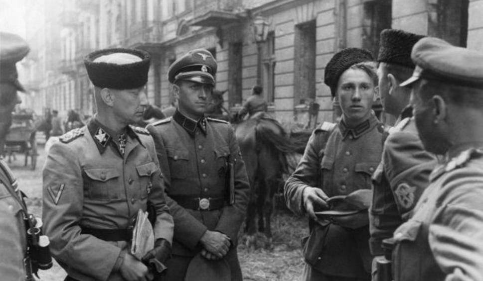 SS-Gruppenführer Heinz Reinefarth "Butcher of Wola" (First from left), General of police and Waffen-SS and the Regiment III of Cossacks of Jakub Bondarenko during Warsaw Uprising around Wolska street. Third Regiment of Cossacks contained mix of Cossacks from many regions, and Jakub Bondarenko was commanding 5th Regiment of Kuban Cossack Infantry.